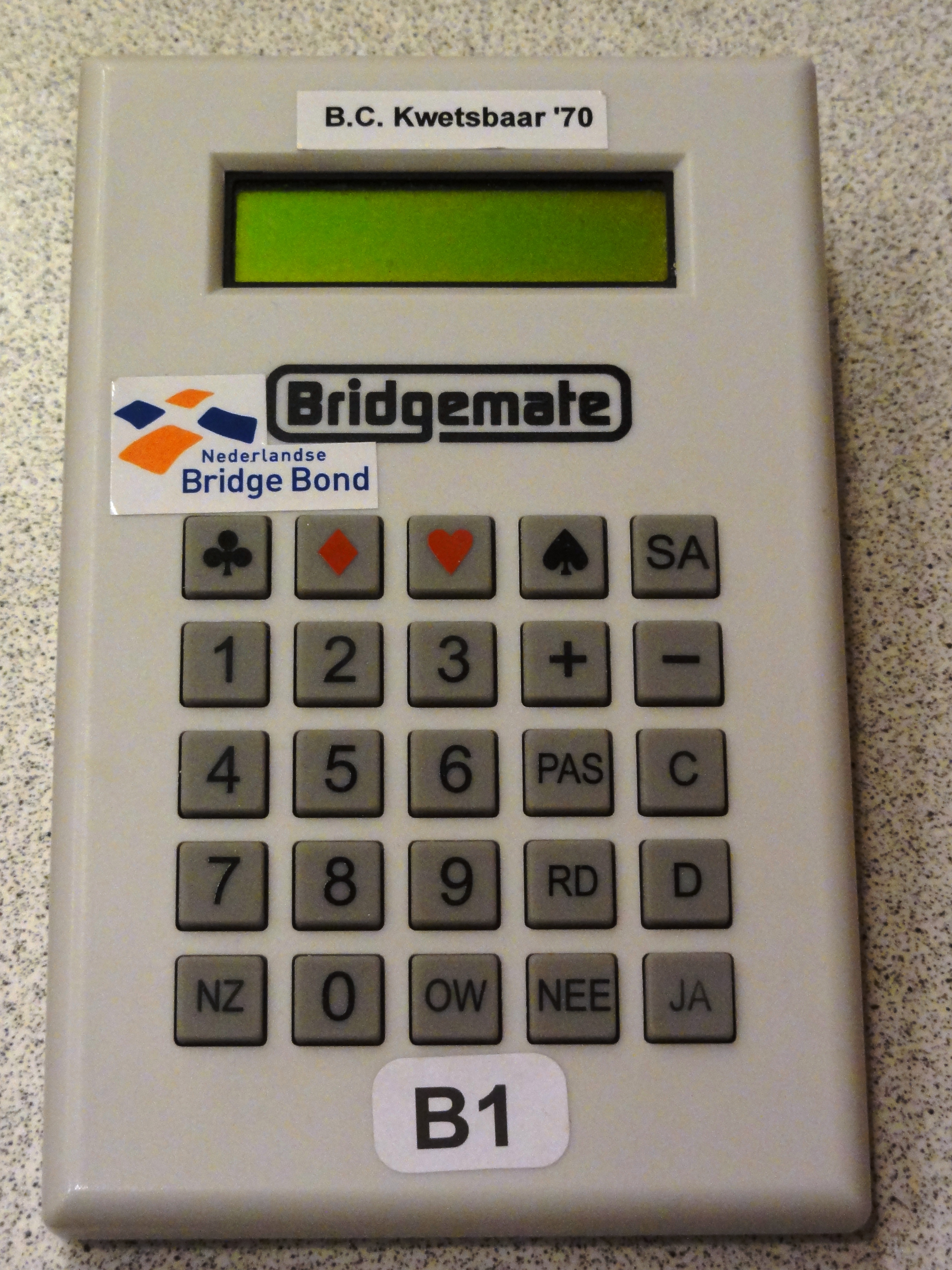 Bridgemate Pro kastje voor het digitaal scoren van bridgewedstrijden